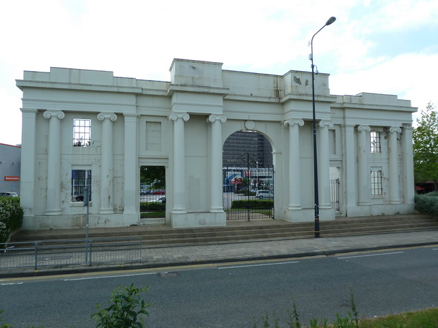 Photograph of the Entrance to White City, Stretford, Greater Manchester, England